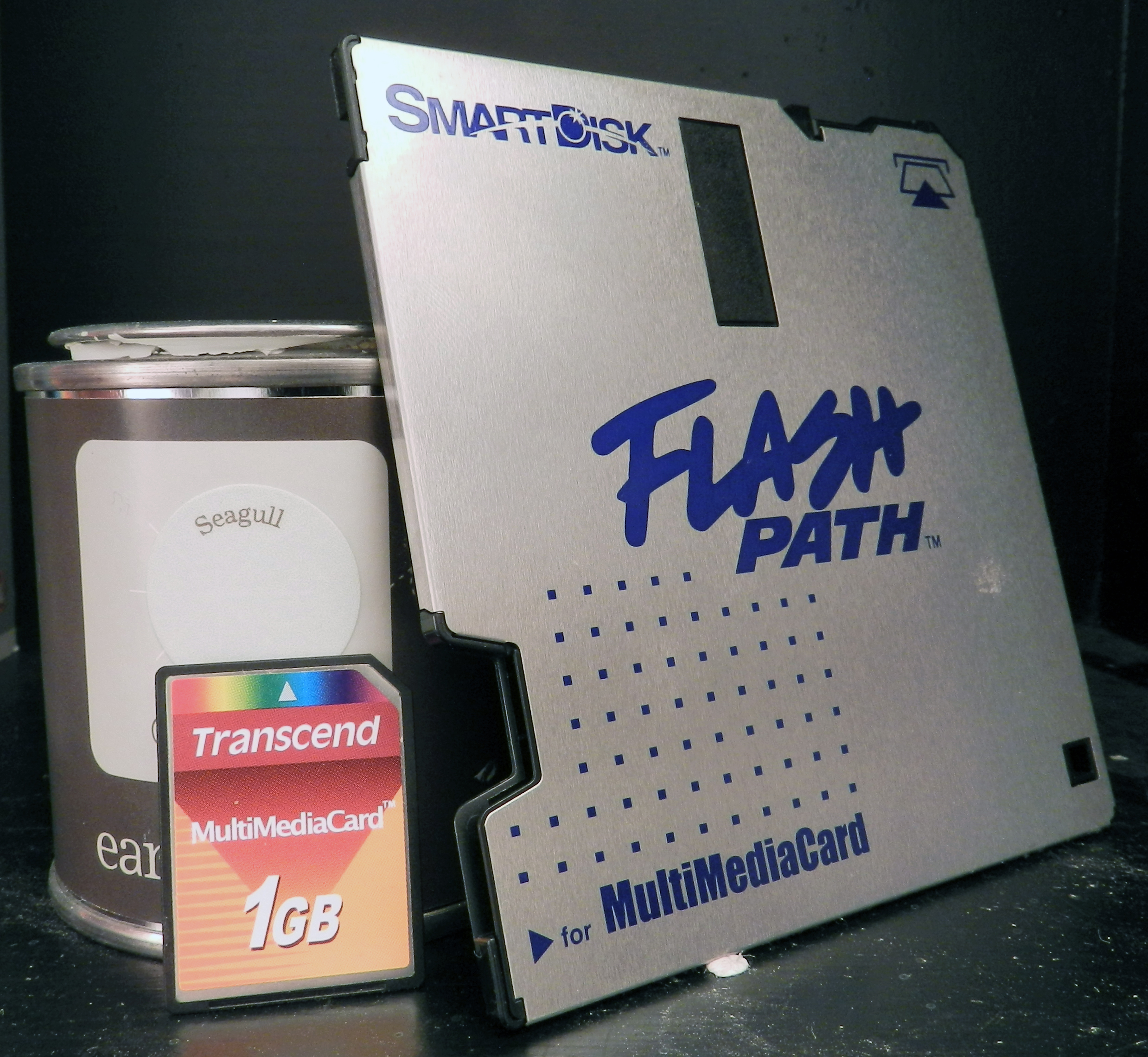 SmartDisk FlashPath floppy disk adaptor for MultiMediaCard and 1GB MultiMediaCard.